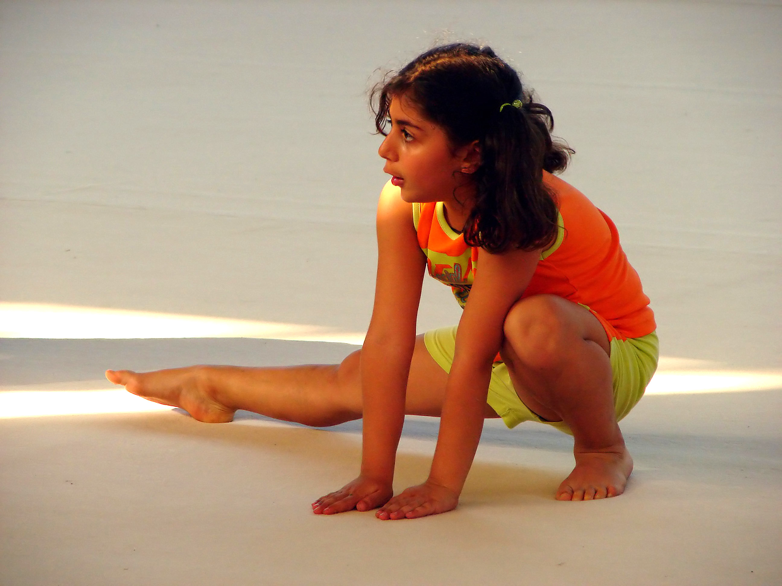 Gymnastics